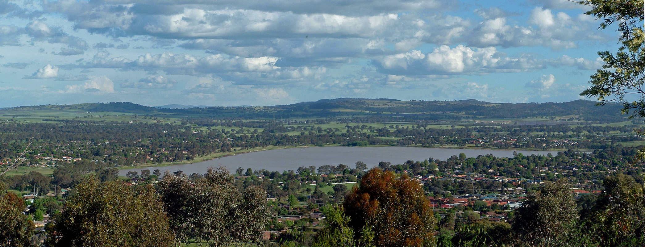 View of Lake Albert with Gregadoo in the distance